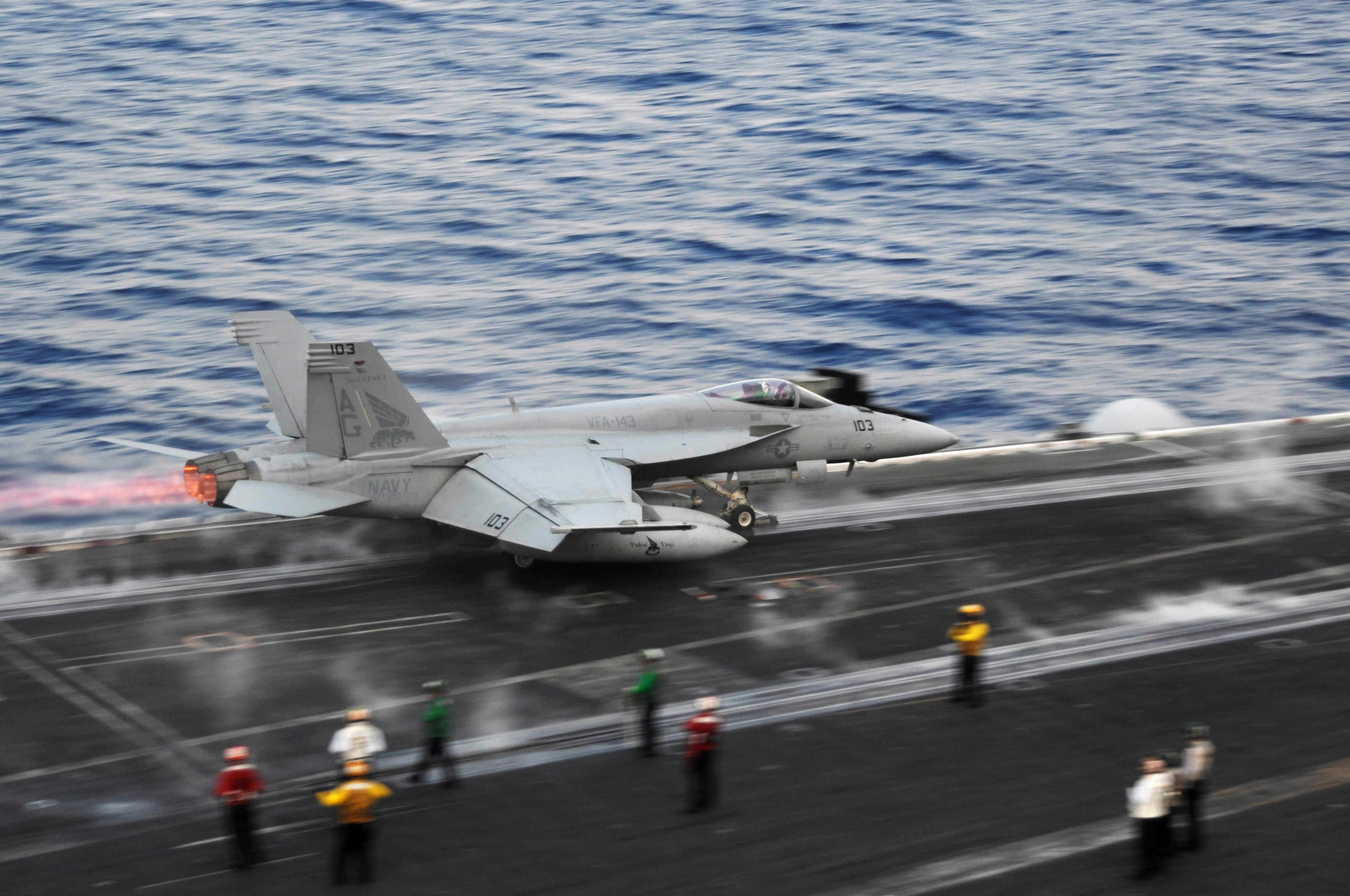 An F/A-18E Super Hornet from the Puking Dogs of Strike Fighter Squadron (VFA) 143 launches from the Nimitz-class aircraft carrier USS Dwight D. Eisenhower (CVN 69). Dwight D. Eisenhower, the flagship for Carrier Strike Group 8, is underway conducting a composite training unit exercise in the Atlantic Ocean. (U.S. Navy photo by Mass Communication Specialist 1st Class Nathanael Miller)